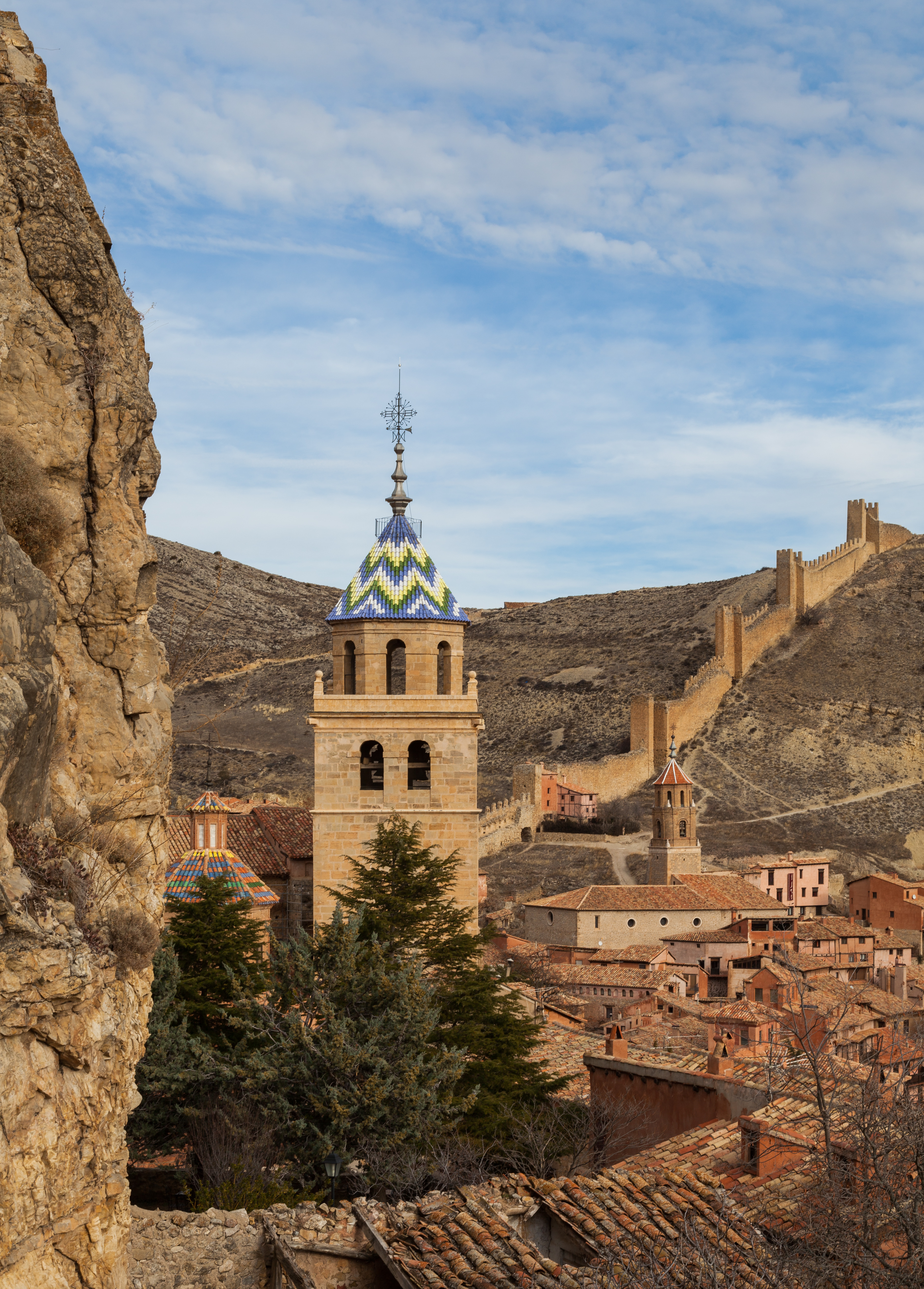 Albarracín, Teruel, Spain